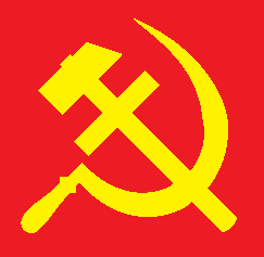 My interpretation of the symbol of Christian Communism. Note the Cross within the Hammer's handle.